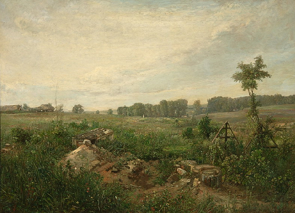 Fyodor Yasnovsky. Mazilovo's grave near Moscow